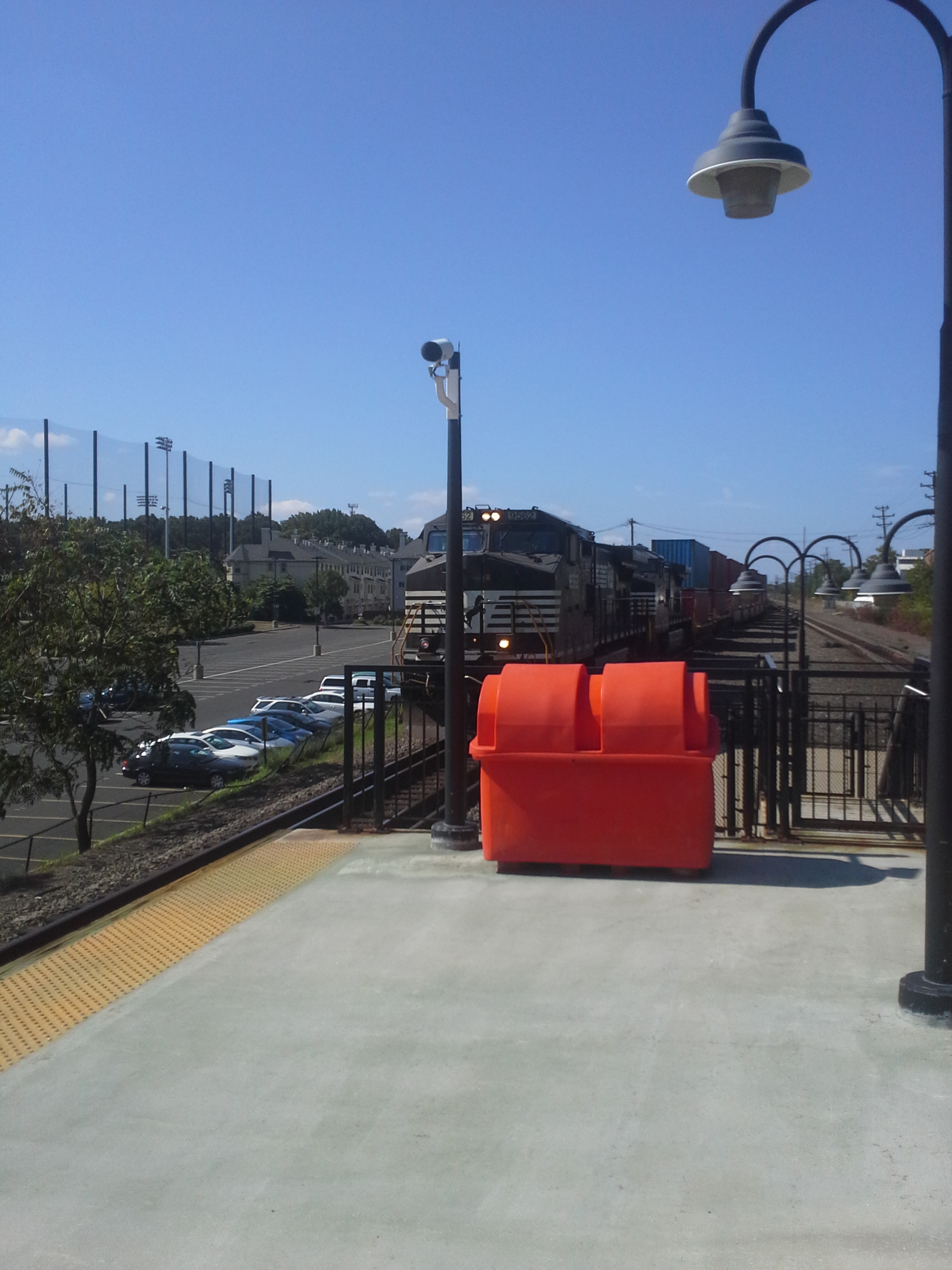 Norfolk Southern train in Union, New Jersey